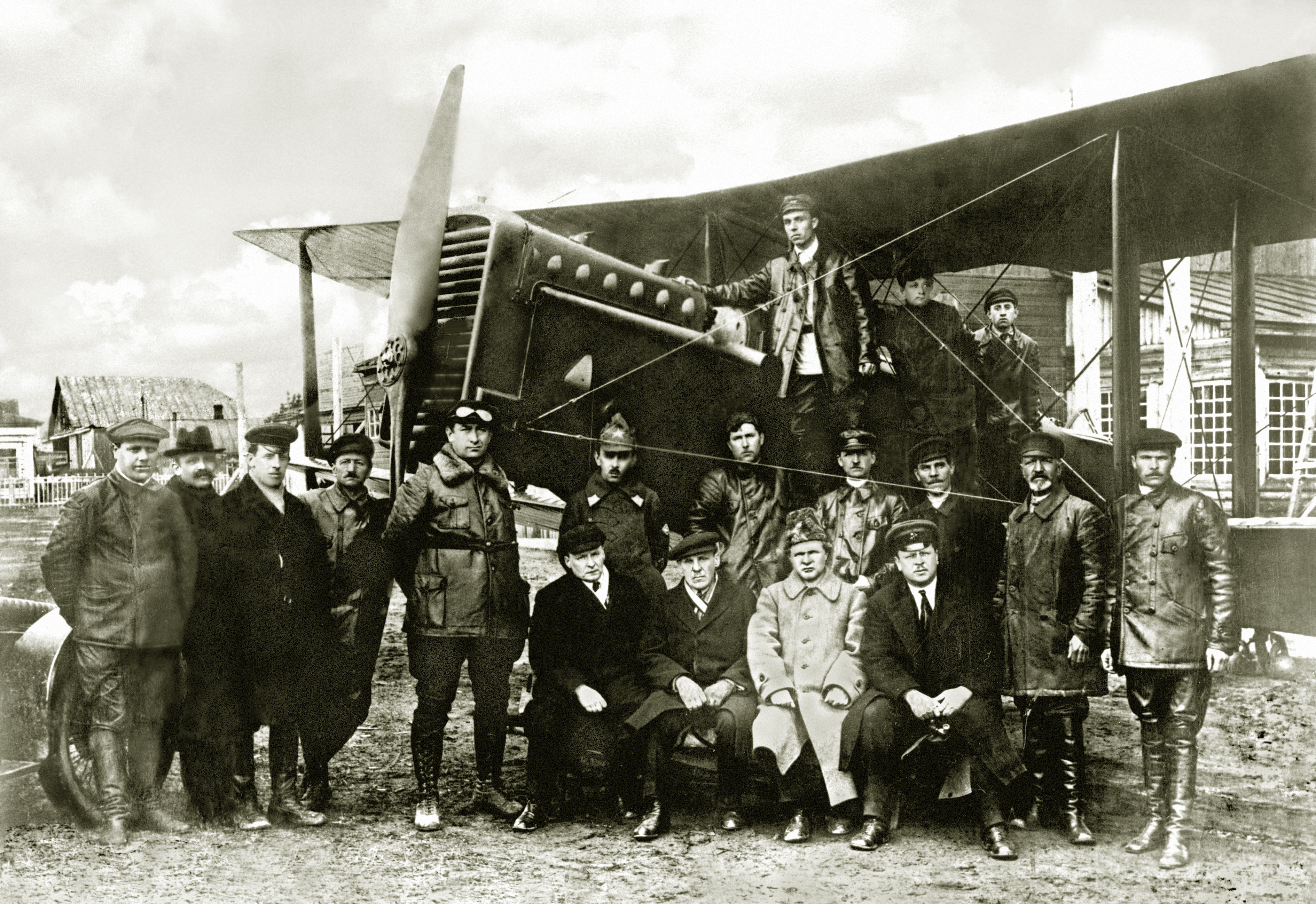 GAZ N1 "Duks" factory.